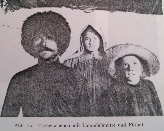 Chechen family from 1920